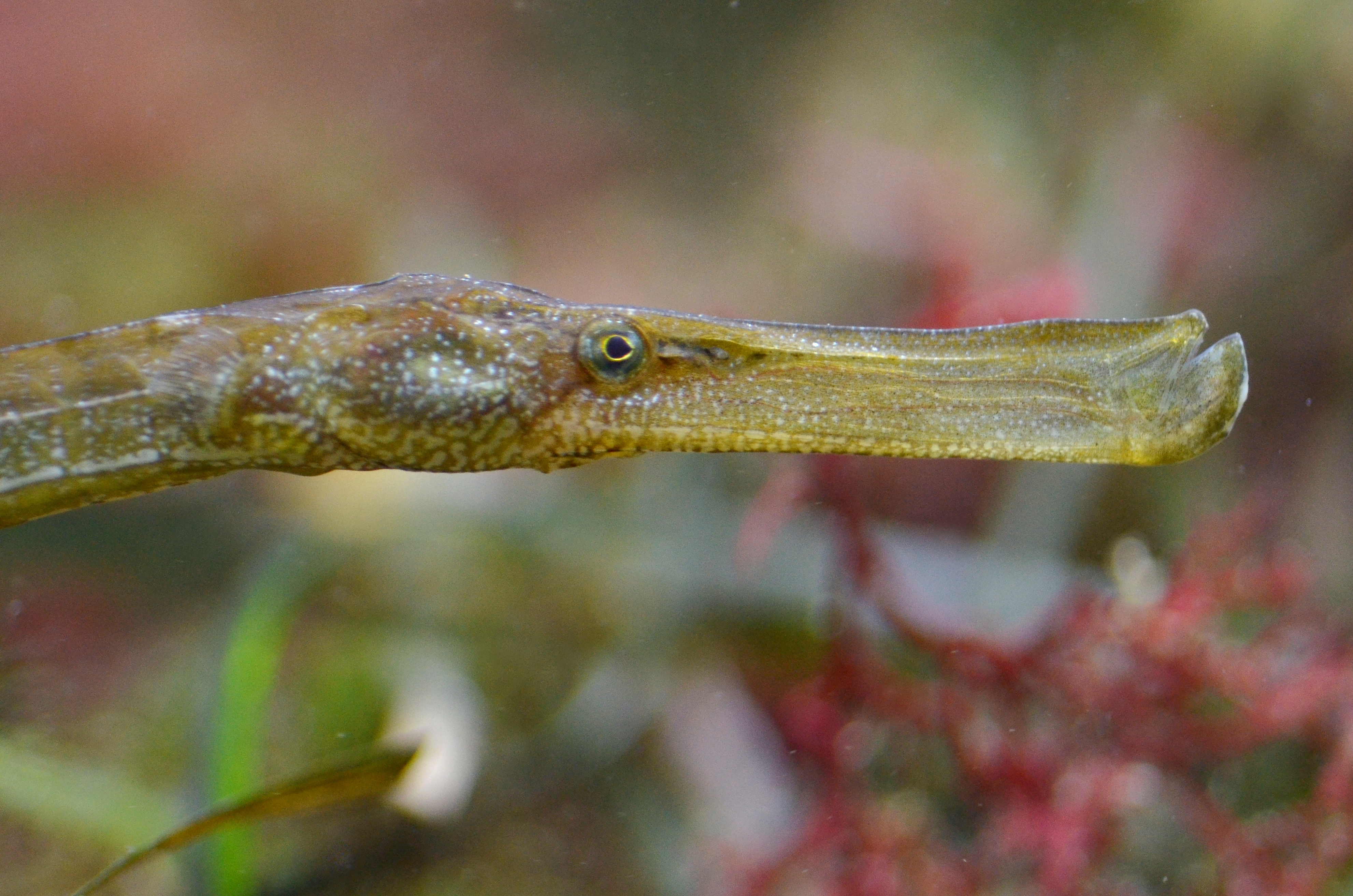 the Fish Syngnathus typhle (Actinopterygii, Syngnathidae) Locality : Grand aquarium de Saint-Malo, France